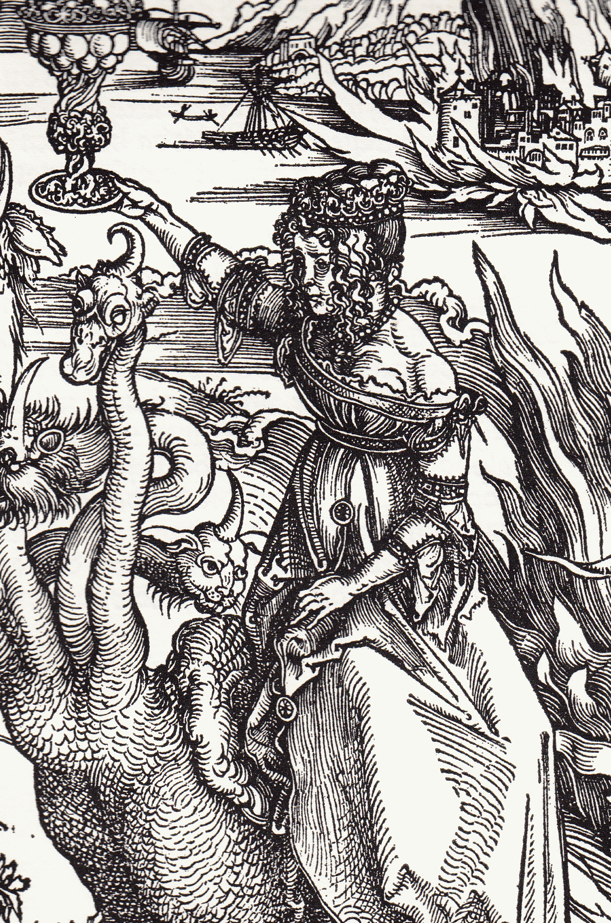 The harlot Babylon. Detail from a woodcut by Albrecht Dürer